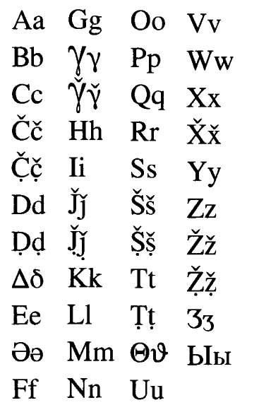 Table of letters as used in new Latin-based orthography for the Wakhi language.